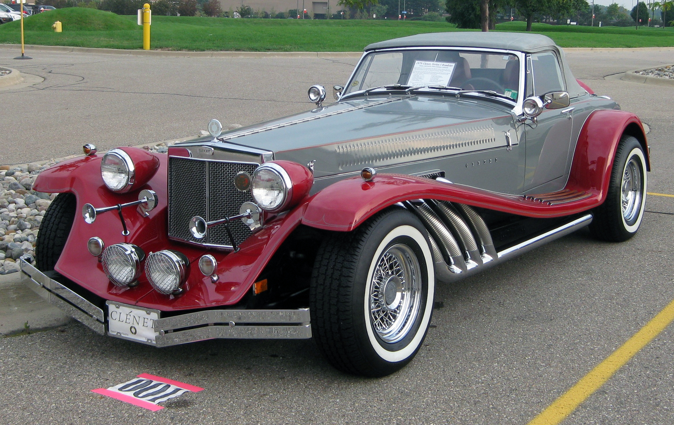 1979 Clénet Series I in Detroit Hyatt parking lot--the Lambda Car Club was meeting there. Maker Faire Detroit writeup here.